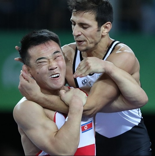 Wrestling at the 2016 Summer Olympics to 59 kg